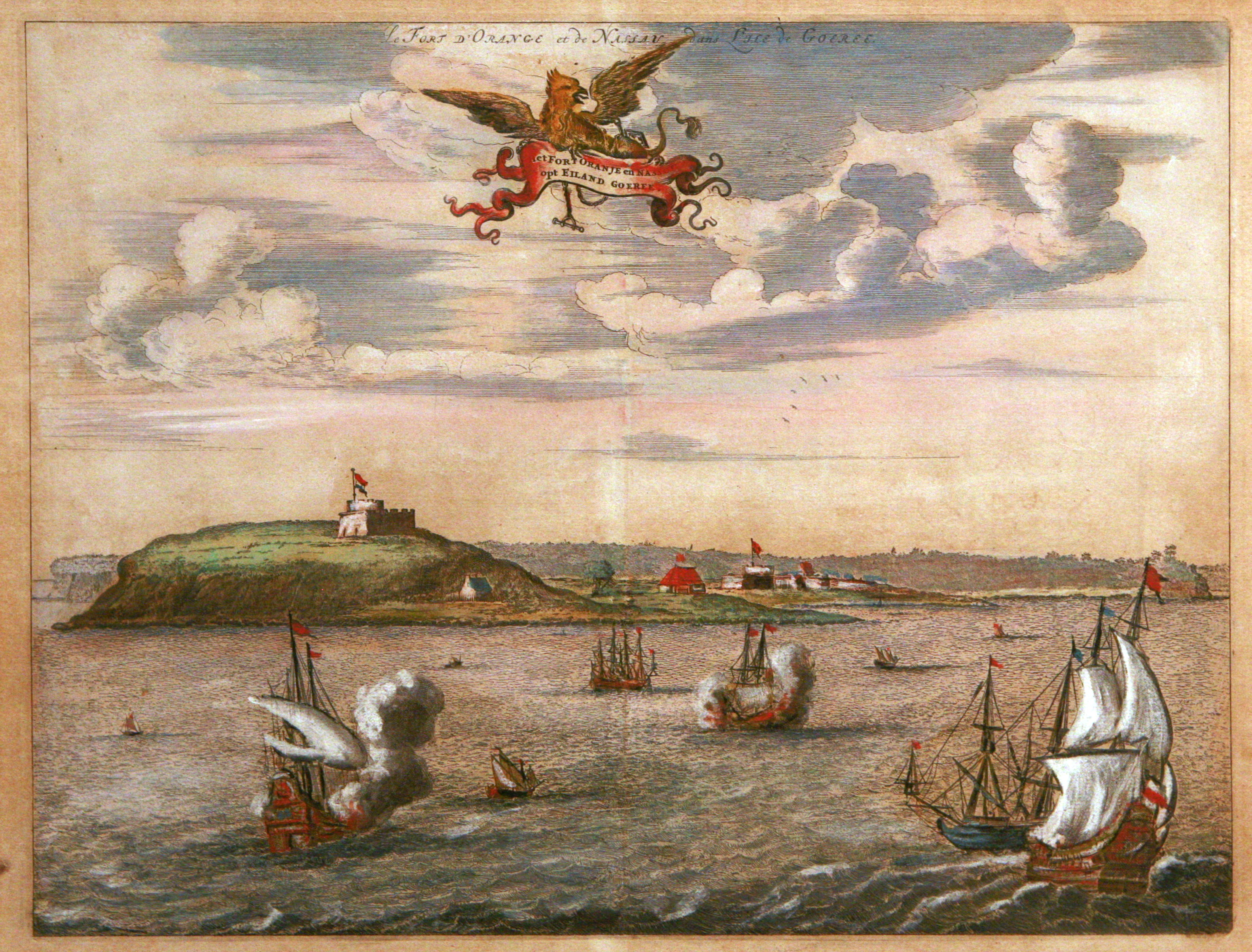 Orange and Naussau fort at Gorée island. Coloured engraving, Holland, 17th century